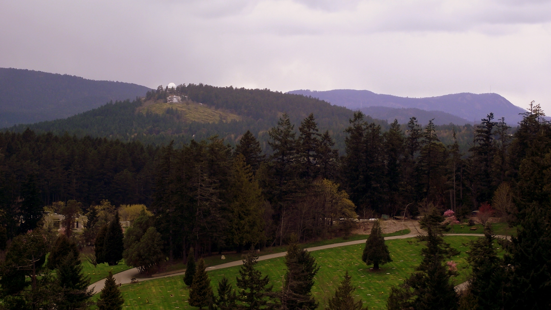 Royal Oak Burial Park and Little Saanich Mountain